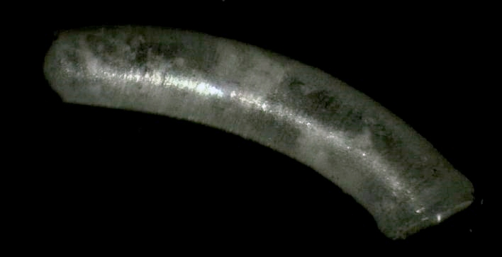 Caecum auriculatum de Folin, 1868 , a snail from the family Caecidae; Sicily